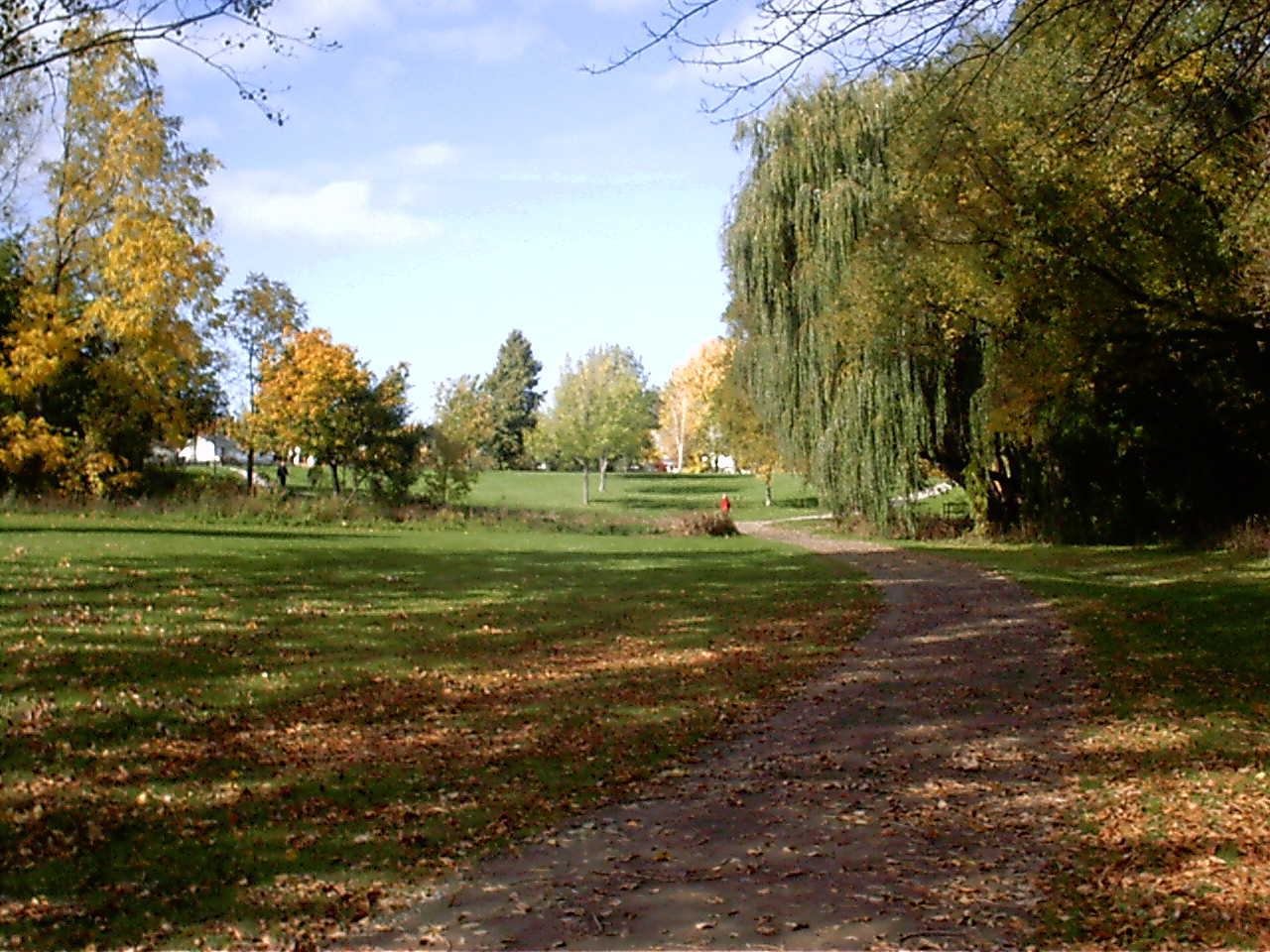 This is a photo I personally took with my digital camera on October 29th, 2005. I give the rights to use this photo for any purpose to everyone as long as Matt Welke is stated as the photographer. The picture was taken on October 29th, 2005. It is a picture of Walker's Creek.